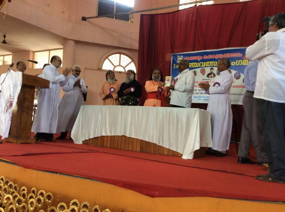 This is a photo of the Book release of Preshitha Deepam, the Biography of Johnachan